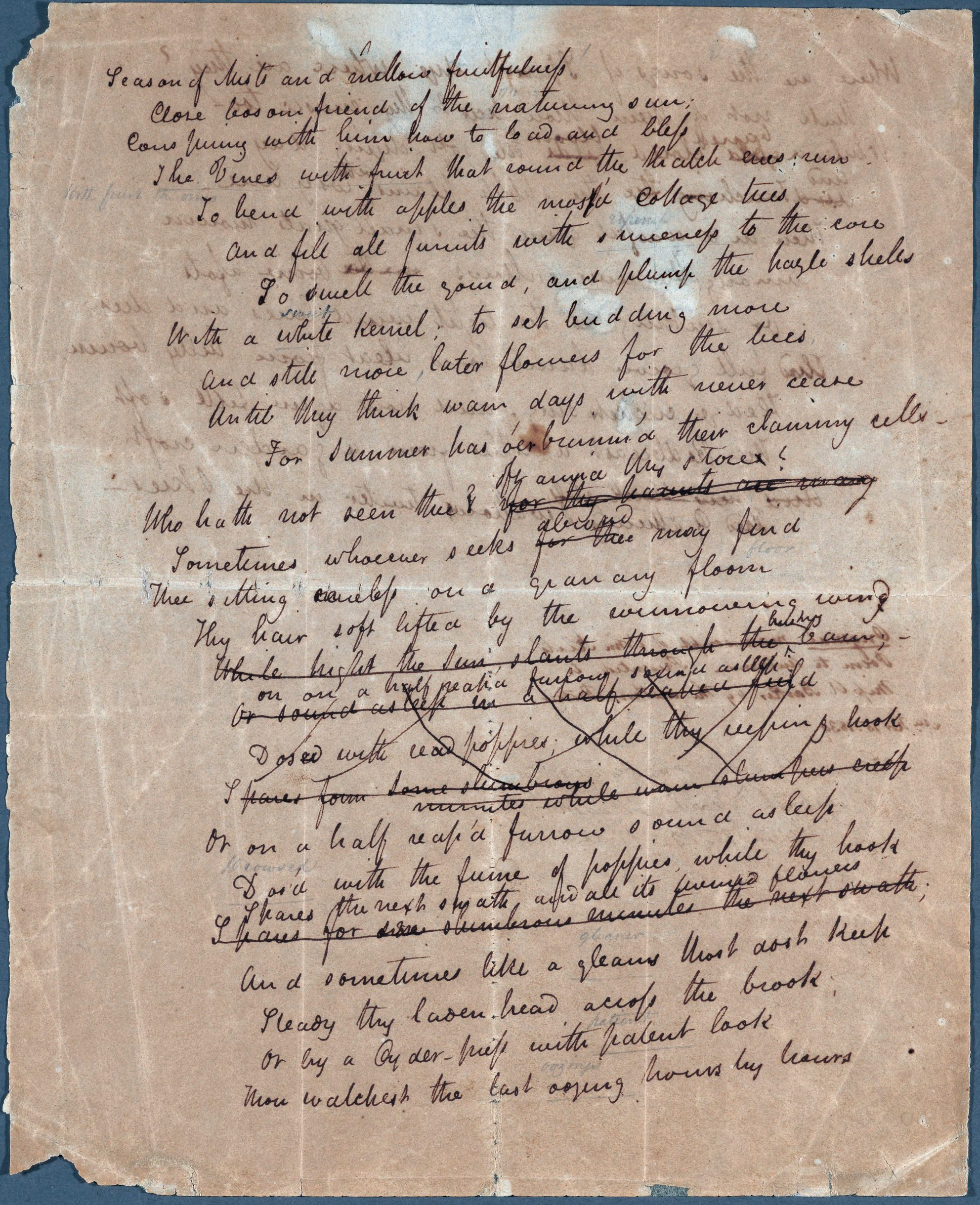 First page of John Keats autograph manuscript of his poem "To Autumn".